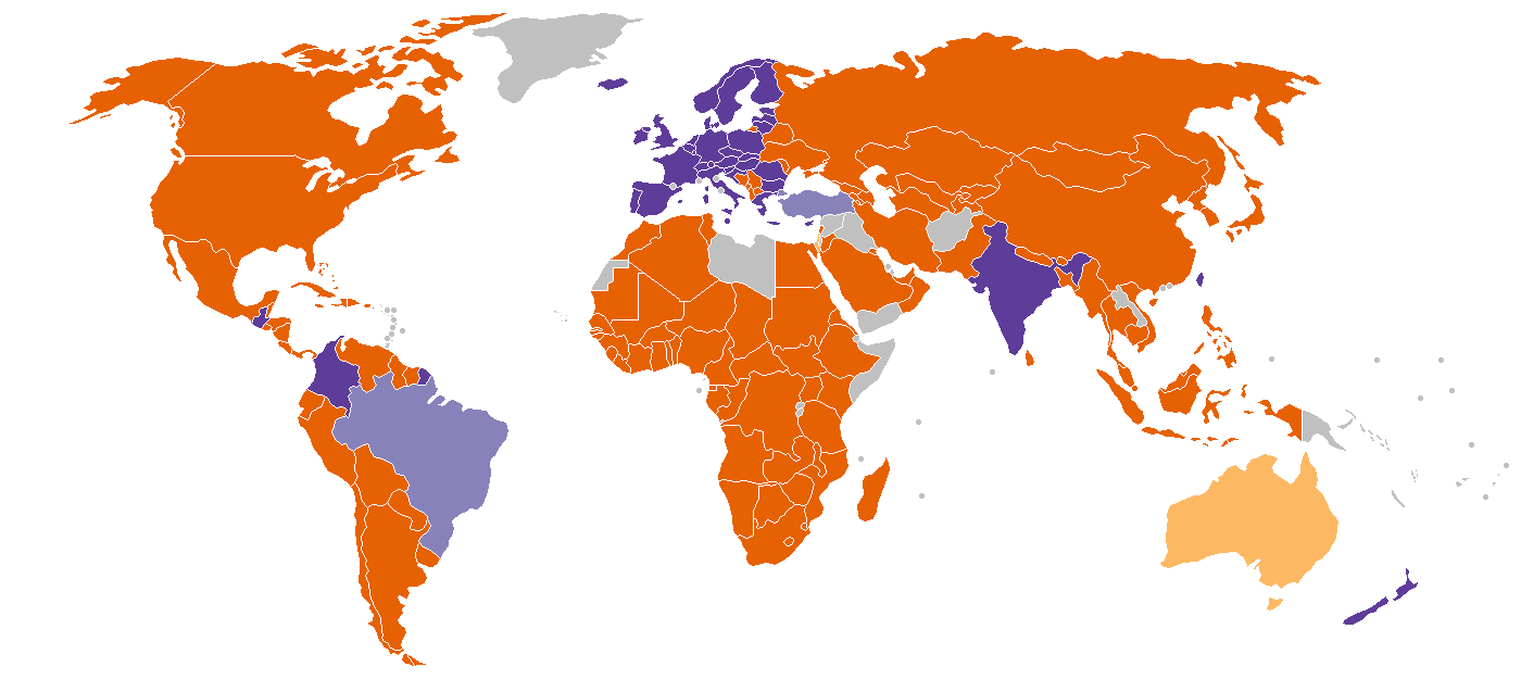 Worldwide laws regarding cosmetic testing on animals Nationwide ban on all cosmetic testing on animals Partial ban on cosmetic testing on animals1 Ban on the sale of cosmetics tested on animals No ban on any cosmetic testing on animals Unknown 1some methods of testing are excluded from the ban or the laws vary within the country